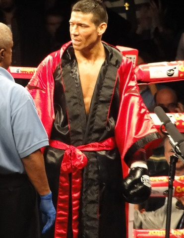 Sergio Gabriel Martínez before defending his title against Paul Williams at the Boardwalk Hall on November 20, 2010.